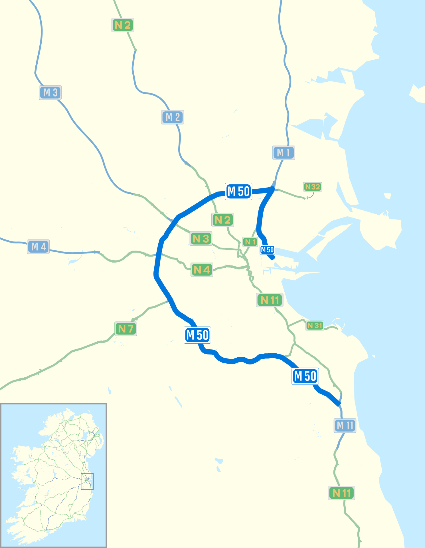 Map of M50 motorway (Ireland) and Dublin area roads with M50 blue bolded, Nxx routes in green and Mxx routes in blue